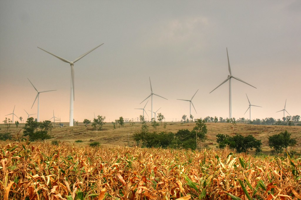 Wind Turbines near Chikodi